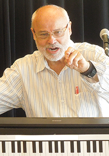 World renown vocal coach Seth Riggs, founder of the vocal technique Speech Level Singing, teaching a singing workshop together with his wife, singer and performer Margareta Svensson Riggs in Varberg, Sweden 2013.